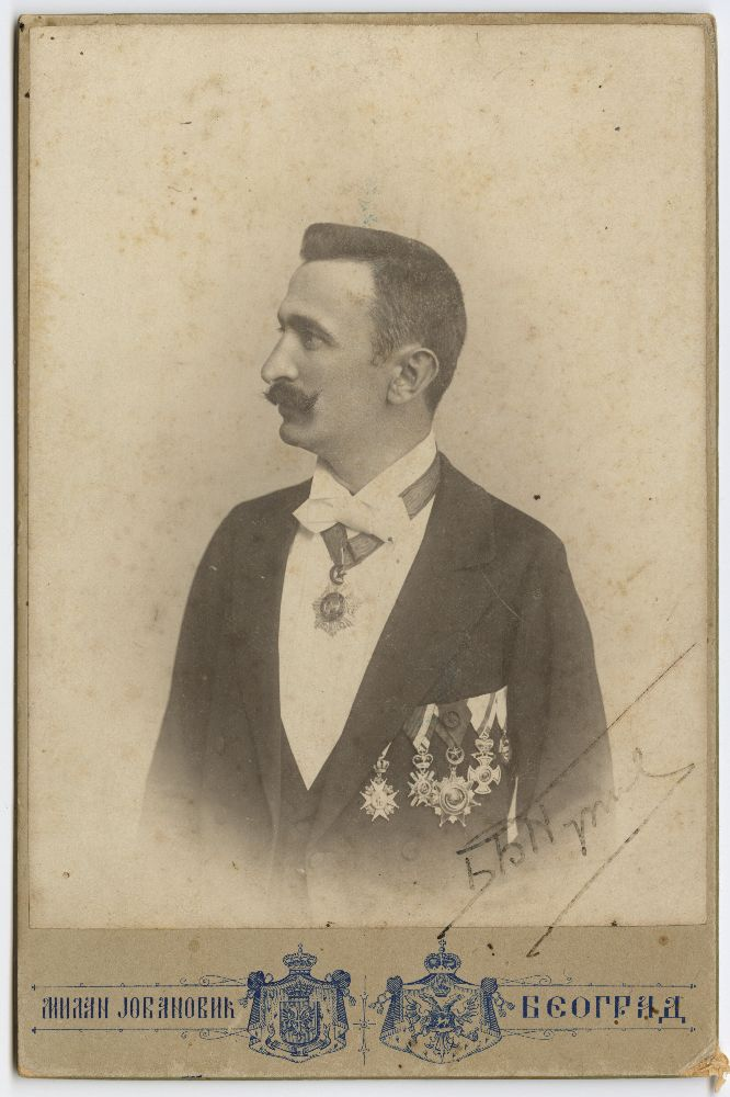 Branislav Nušić